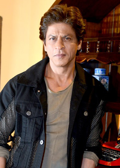 Shah Rukh Khan promotes Jab Harry Met Sejal in Delhi.